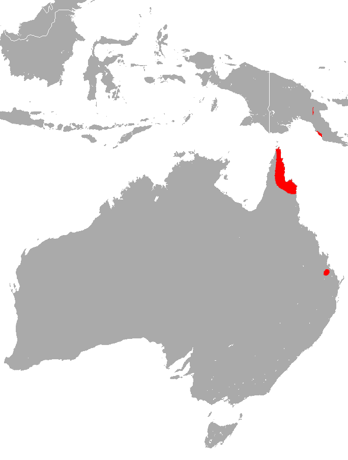 Semon's Roundleaf Bat (Hipposideros semoni) range